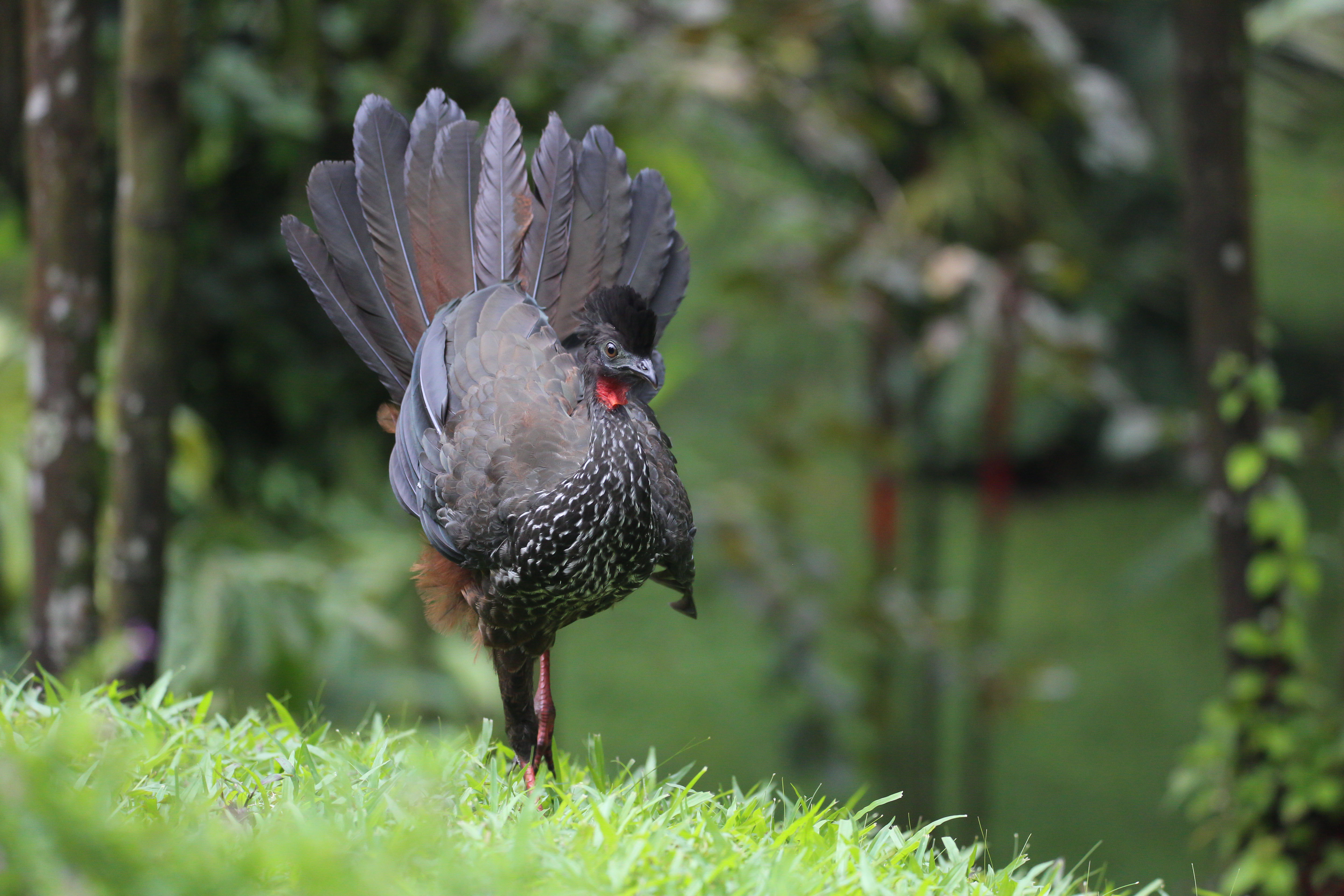 Penelope purpurascens - Crested Guan - Costa Rica